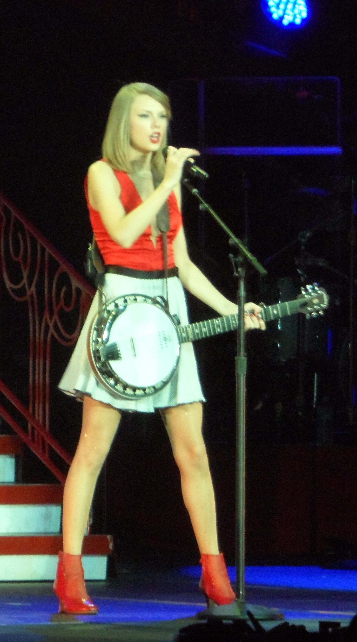 Taylor Swift performing at the Singapore Indoor Stadium, Republic of Singapore, on 9 June 2014, for the RED World Tour